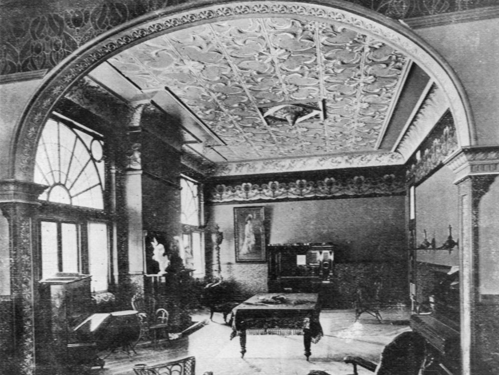 Music room in a private home, 1906. Interior view of a music room which features a pressed tin ceiling and two large windows. The room is furnished with a piano, large table , chairs and several larger pieces of furniture. The room was featured in a magazine.